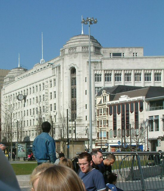 Debenhams Manchester Looking across from Piccadilly Gardens to Debenhams at the top of Market Street.